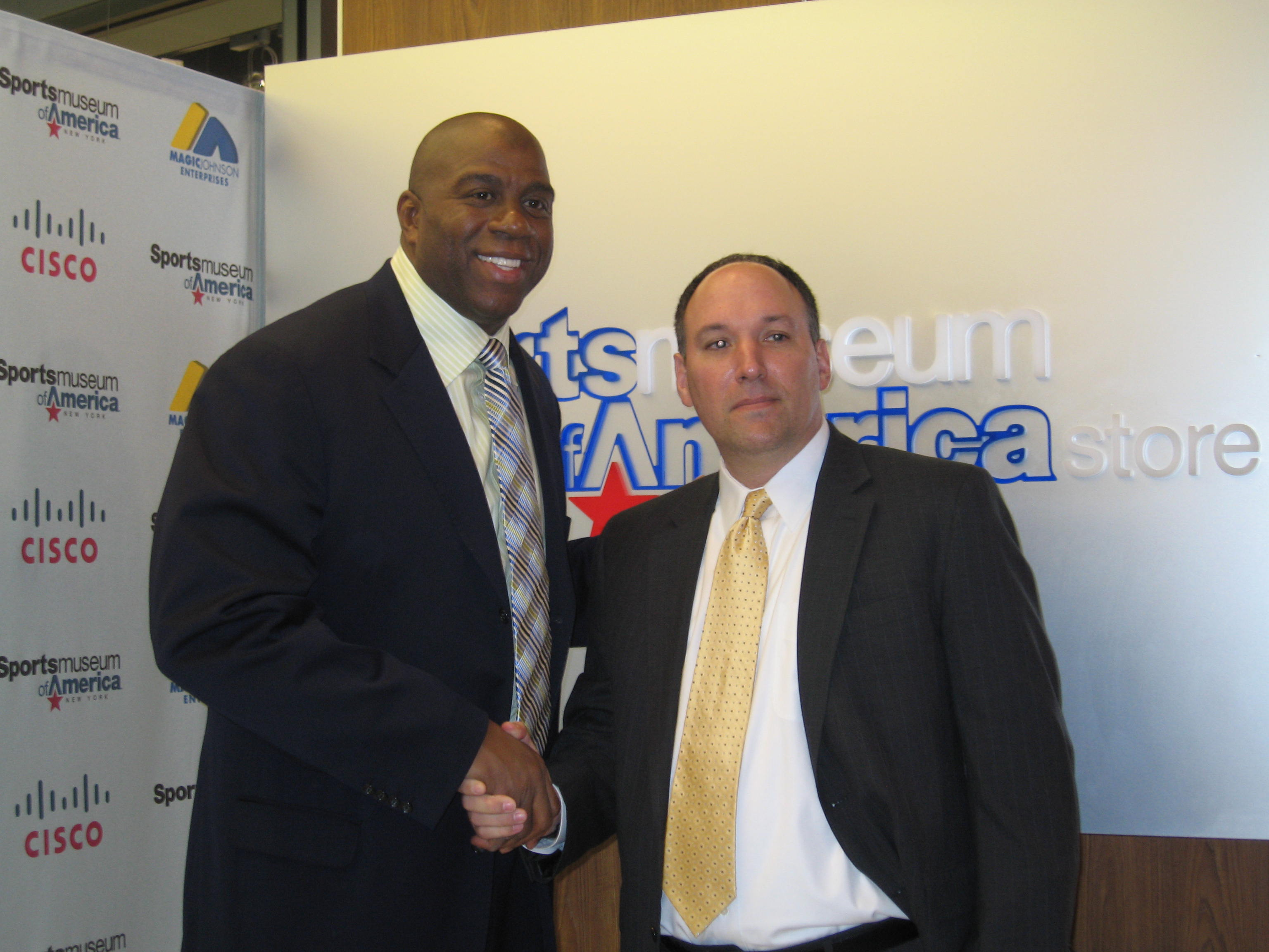 Philip with Magic Johnson at Sports Museum of America